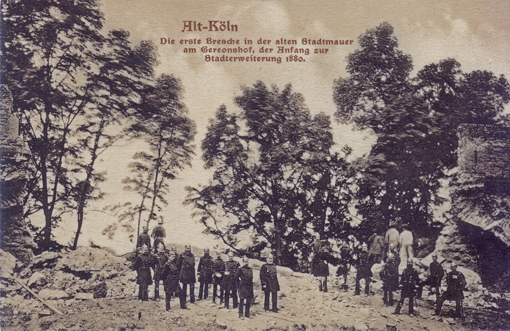 First breach in Cologne's city-wall for the 1880 expansion of the city